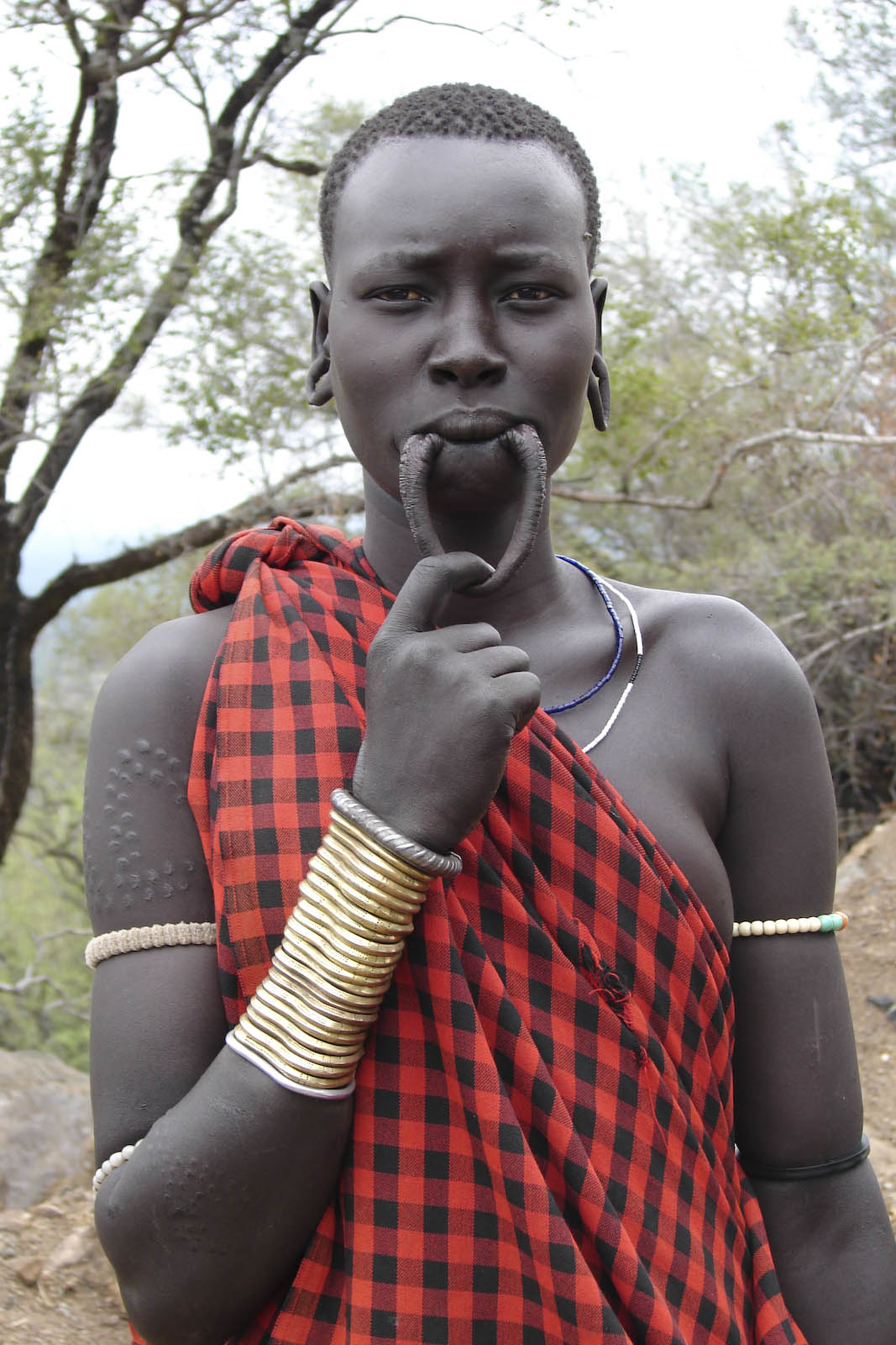 Murzi woman (Ethiopia)